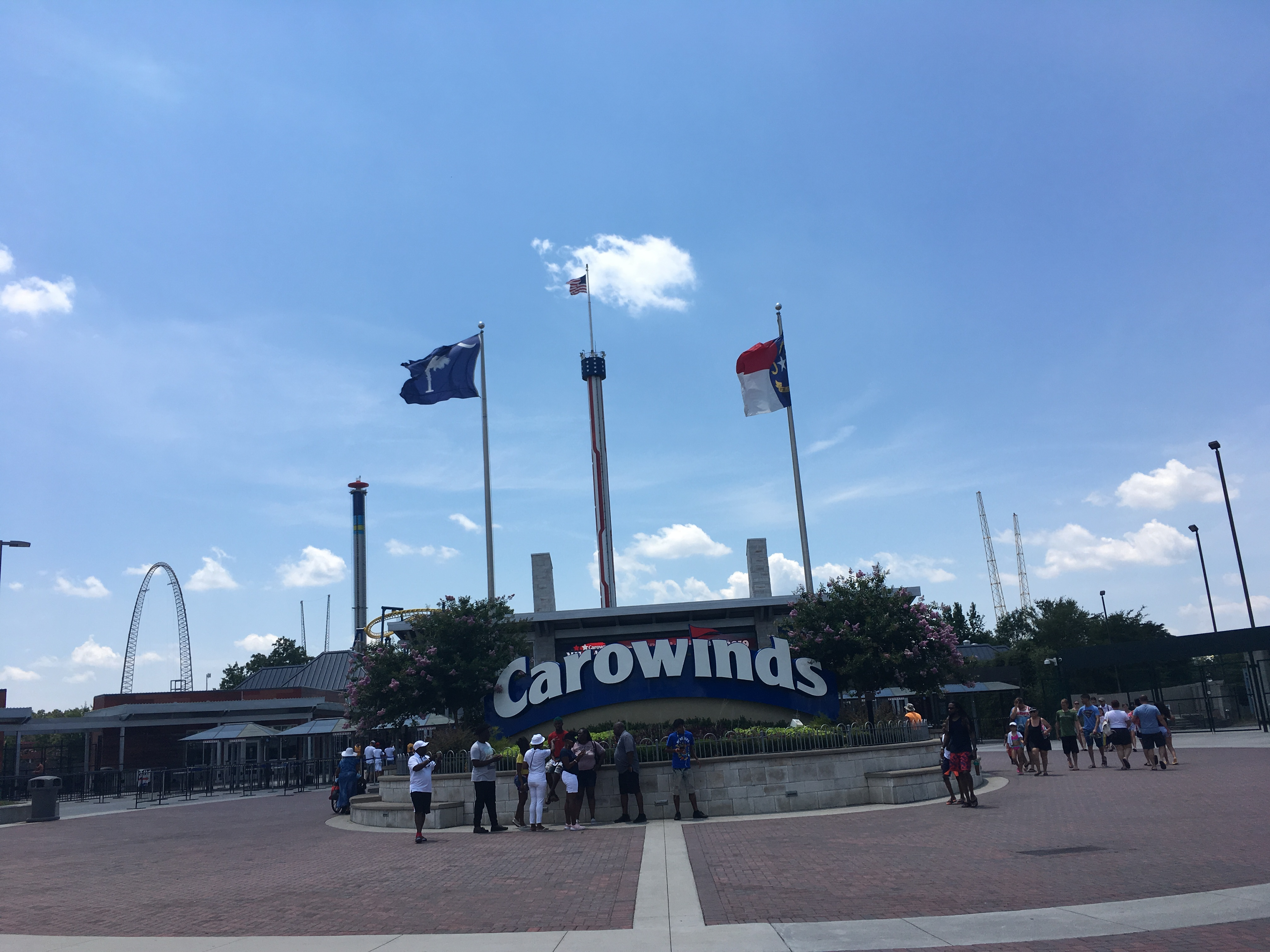 Sign and North Carolina and South Carolina state flags at the entrance to the Carowinds amusement park on the border of Charlotte, North Carolina and Fort Mill, South Carolina